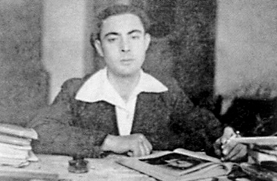 V. Kmetsynskyi - student of Chernivtsi University.